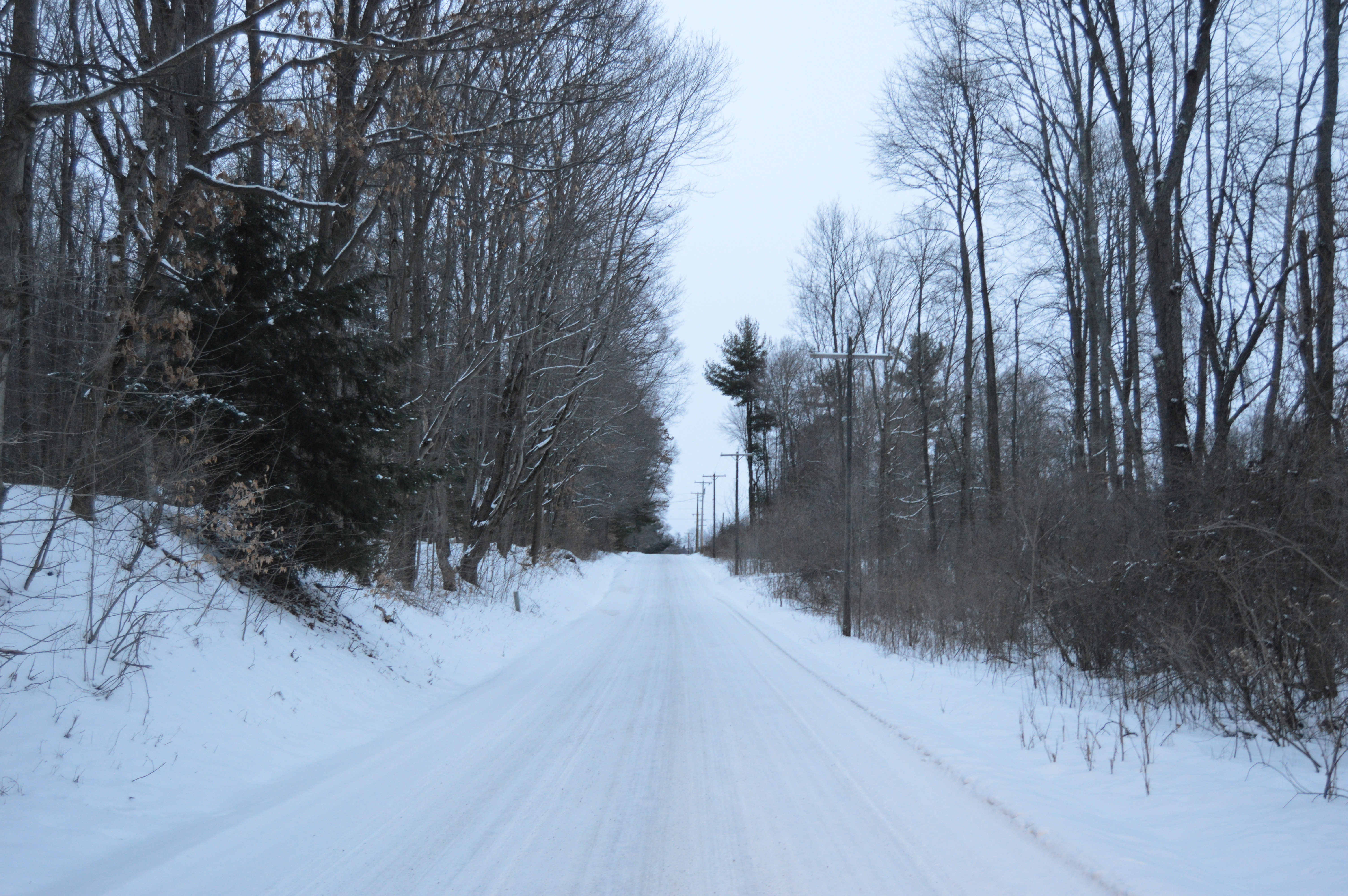 A snowy road in southwestern Crawford County, Pennsylvania, United States. Photo looks north on Pine Road in East Fallowfield Township, just south of the U.S. Route 322/Pennsylvania Route 18 intersection.